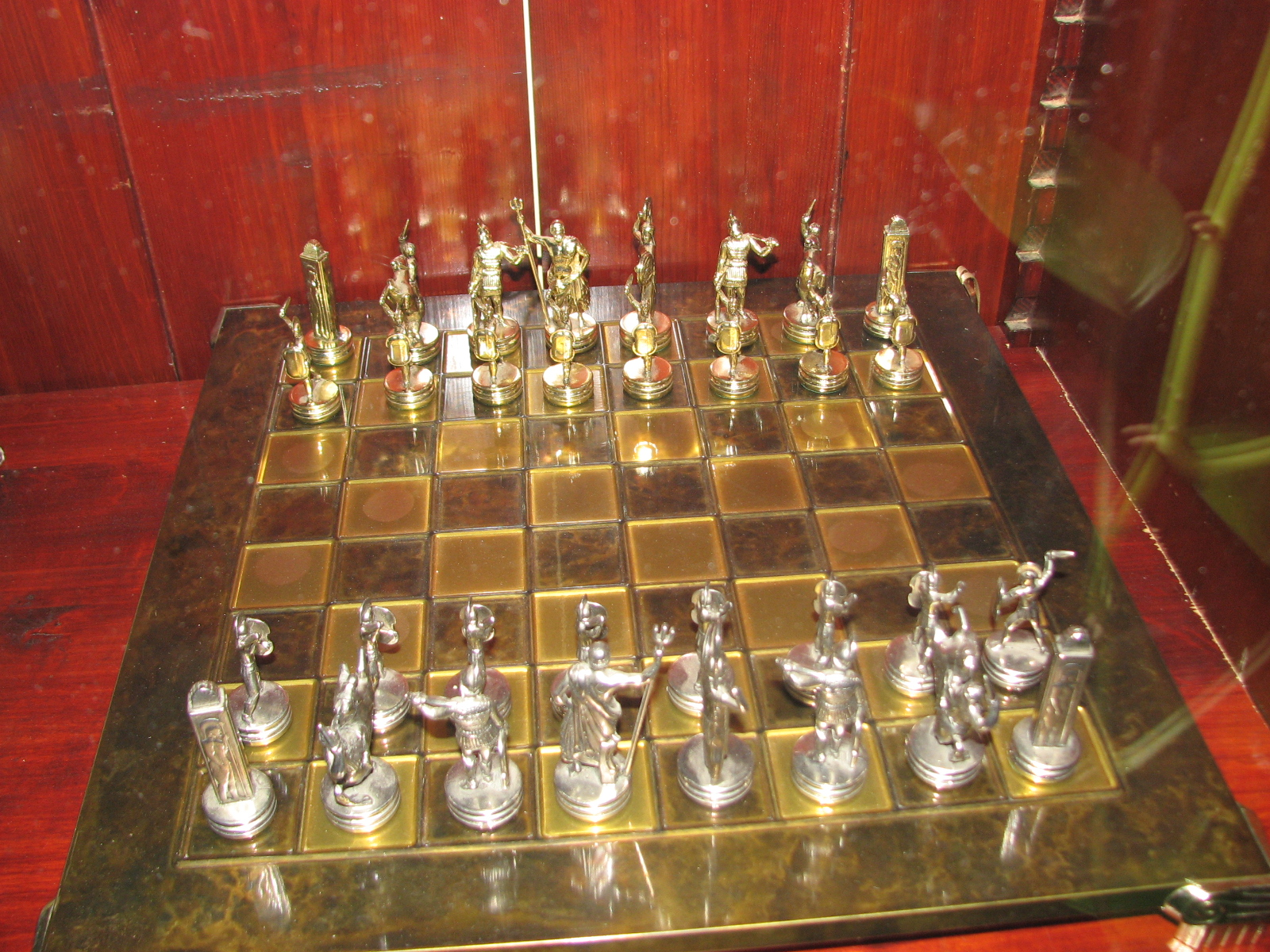 Taagepera Castle. Year 2008. Hunting hall